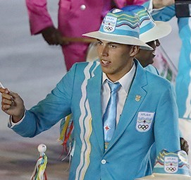 Aruba athletes at the 2016 Summer Olympics